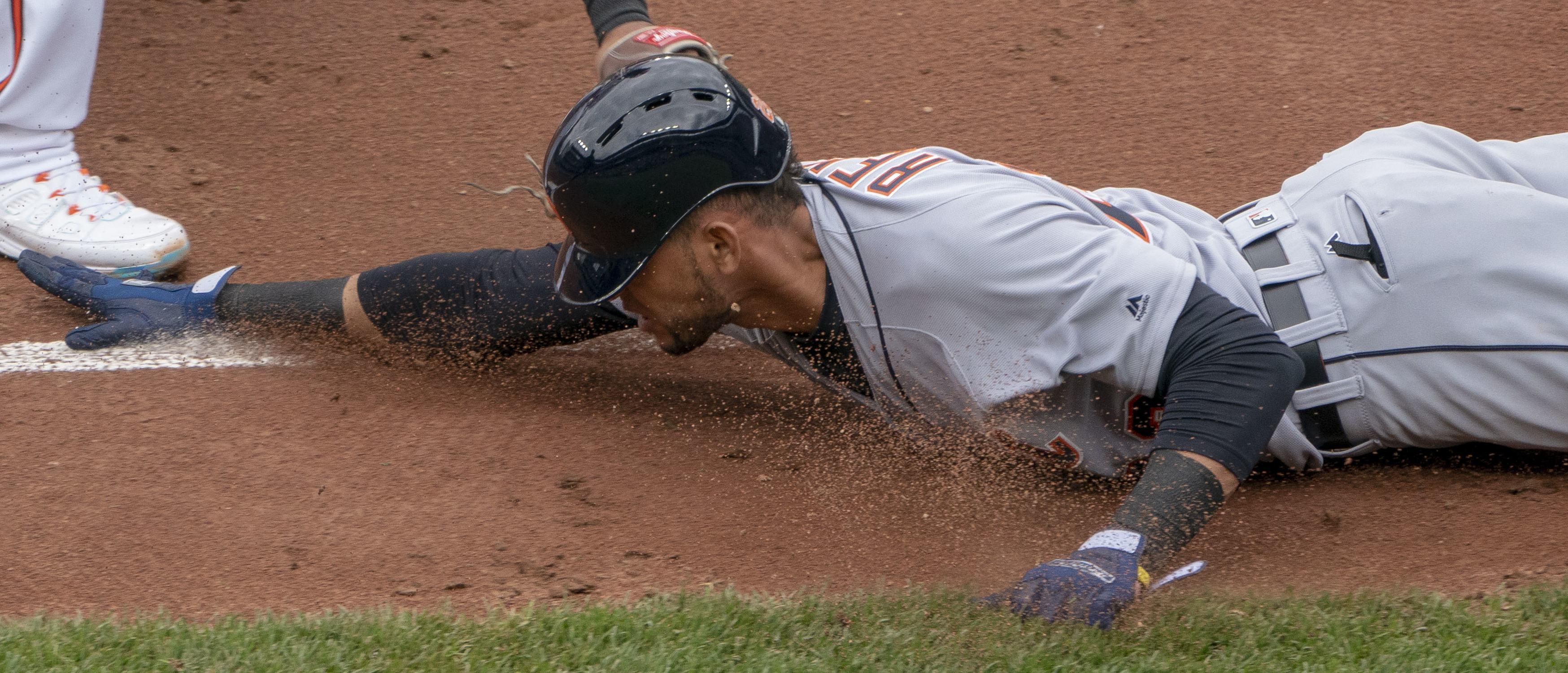 Detroit Tigers Victor Reyes is tagged out by Baltimore Orioles Pedro Alvarez in a game at Oriole Park at Camden Yards on April 29, 2018 in Baltimore, MD.